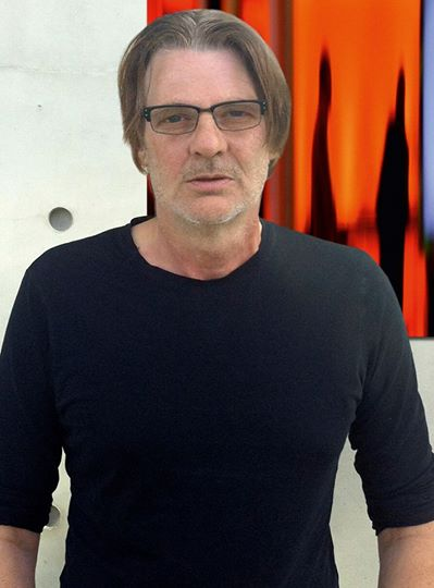 Sven Kierst, Self-portrait 2014, in front of airport, photography